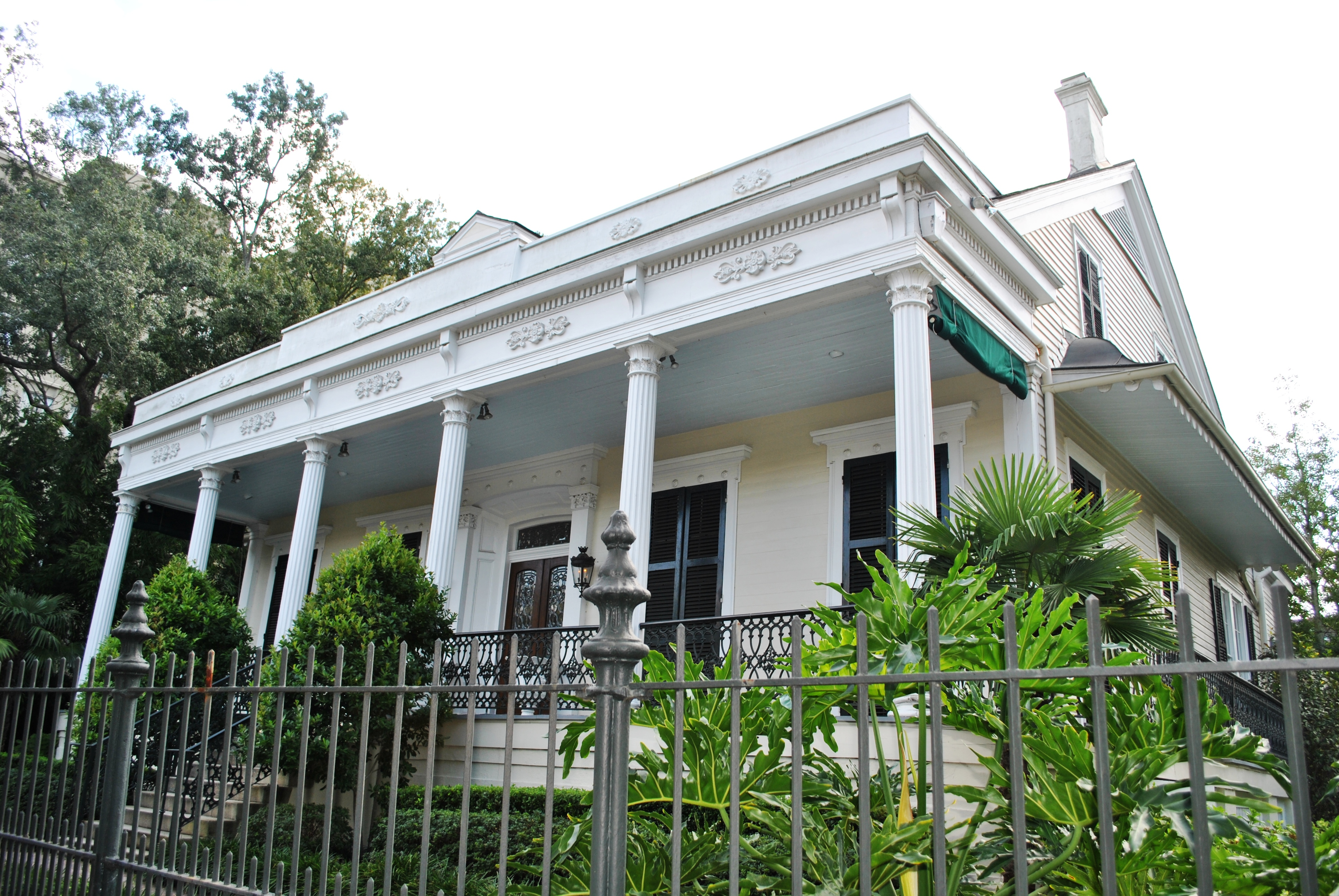 Garden District